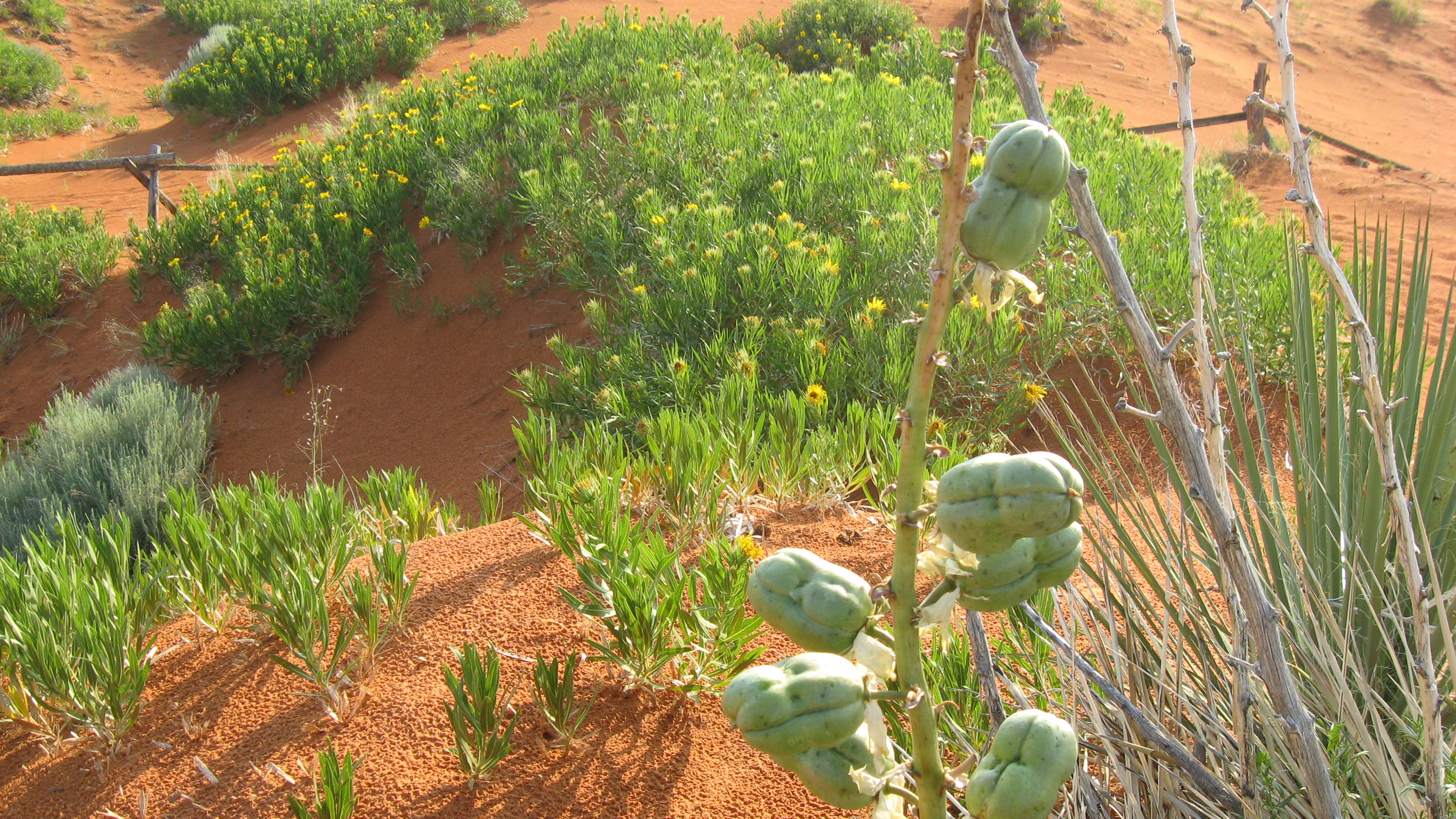 Coral Pink Sand Dunes State Park in Utah (near Zion National Park), U.S.A.